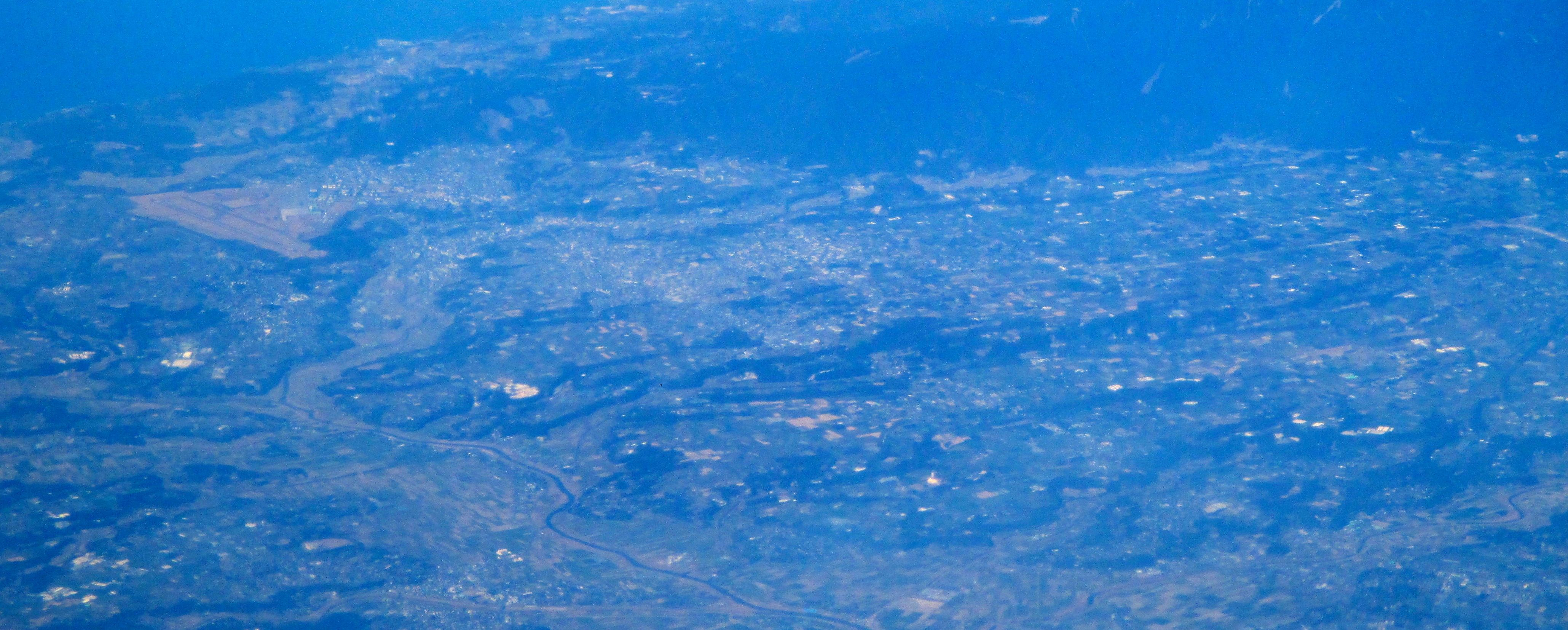 Kasanohara in Kagoshima, Japan